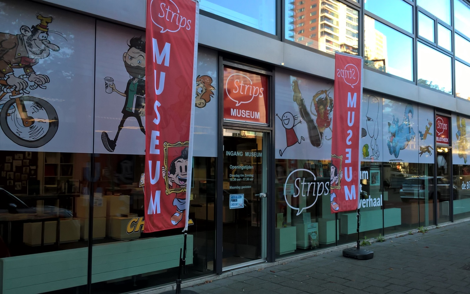 Strips! Museum, Rotterdam, The Netherlands. Entrance.